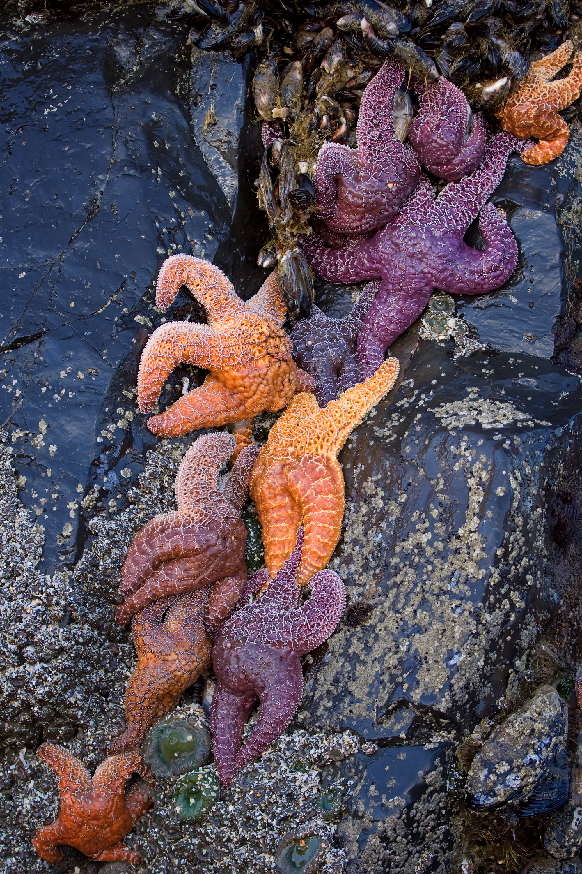 We can see these starfishes (Pisaster ochraceus or Ochre Sea Star) during low tide on the rocks near the Haystack Rock on the coast at Cannon Beach, Oregon, US.